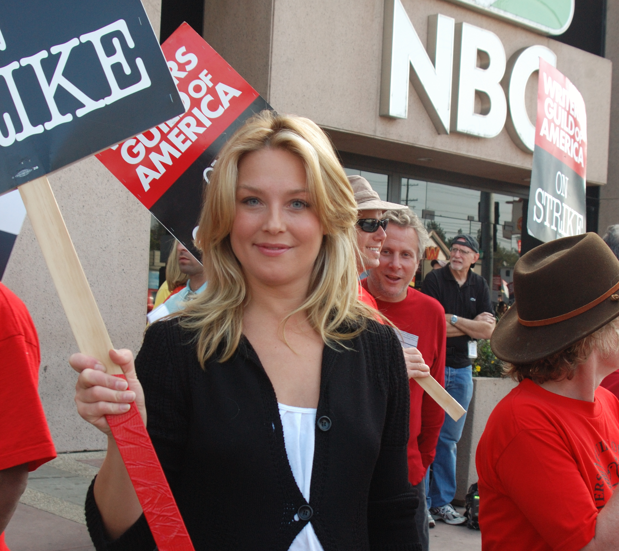 American actress Elisabeth Röhm during the 2007 WGA strike.